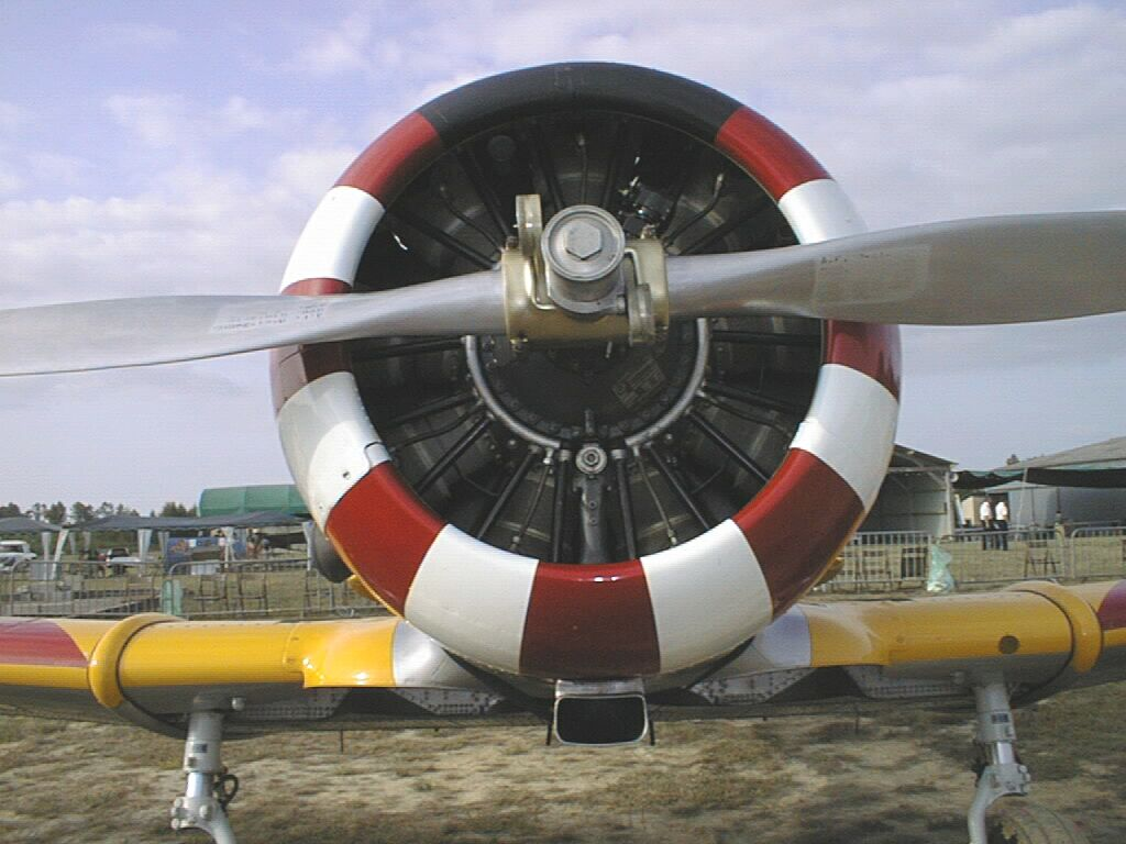 North American T-6G Texan, Pratt & Whitney R-1340-AN-1 Wasp radial engine, 600 hp (450 kW).